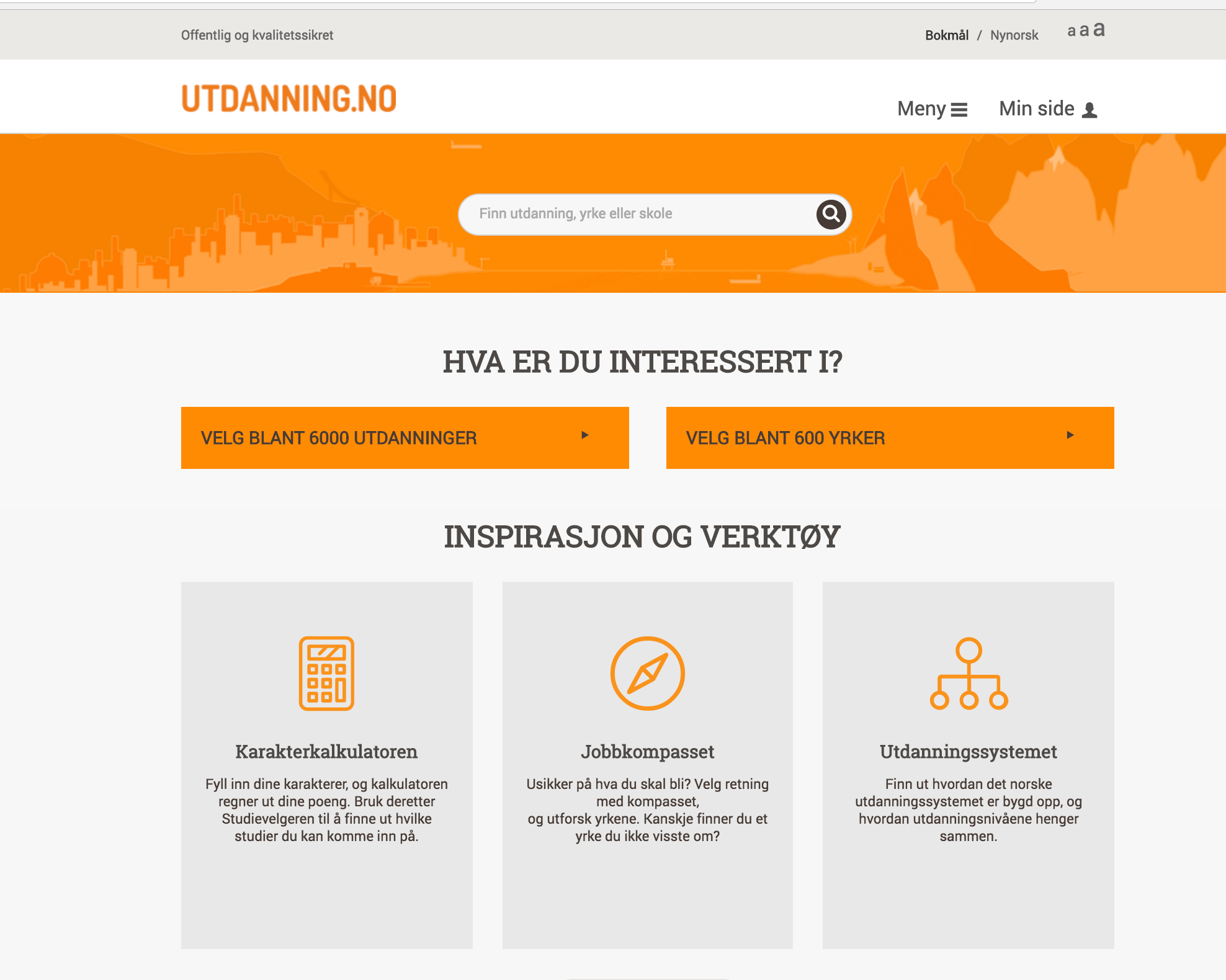 Screen capture of homepage of the Norwegian Ministry of Education's website utdanning.no